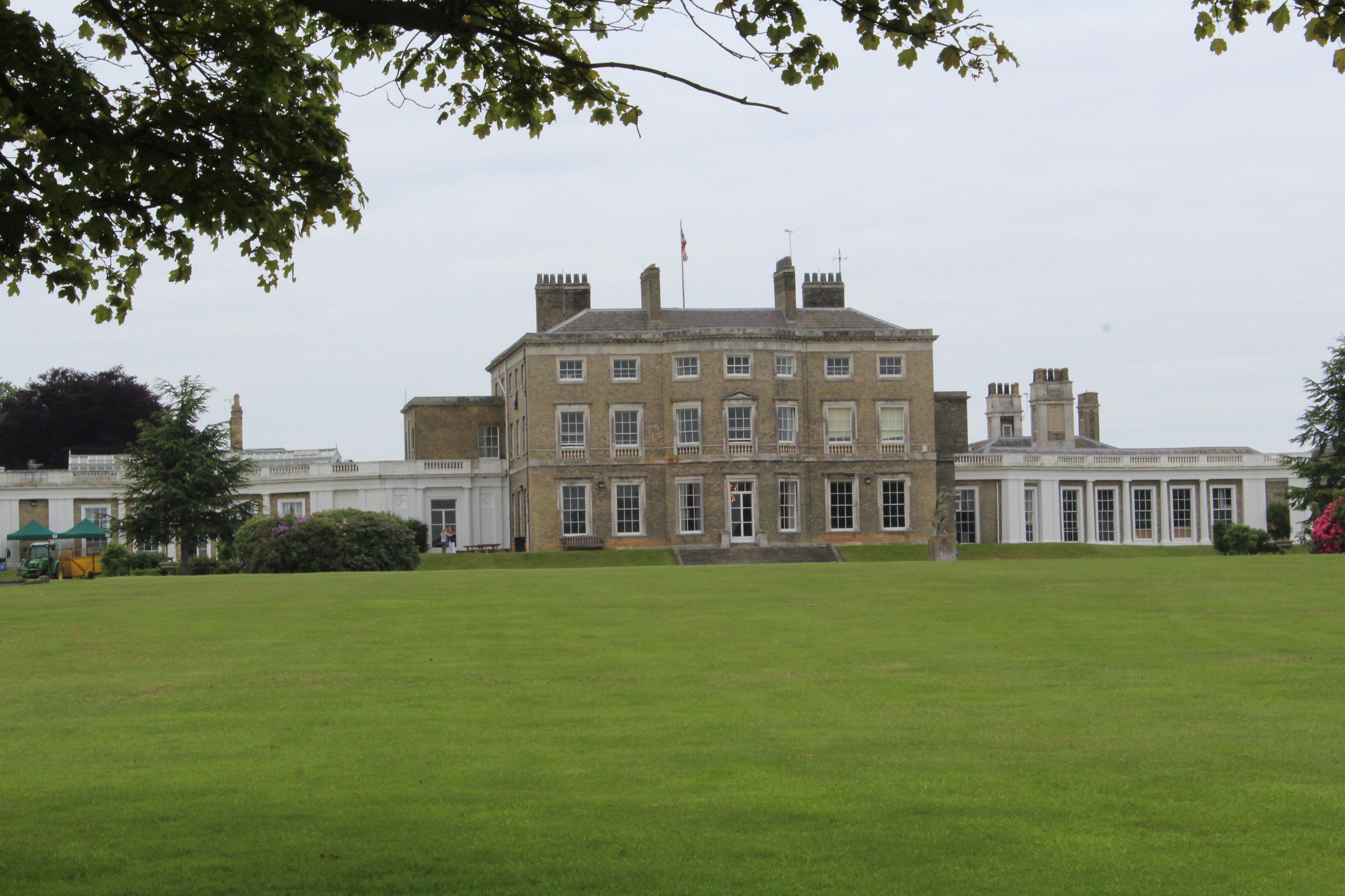 country house